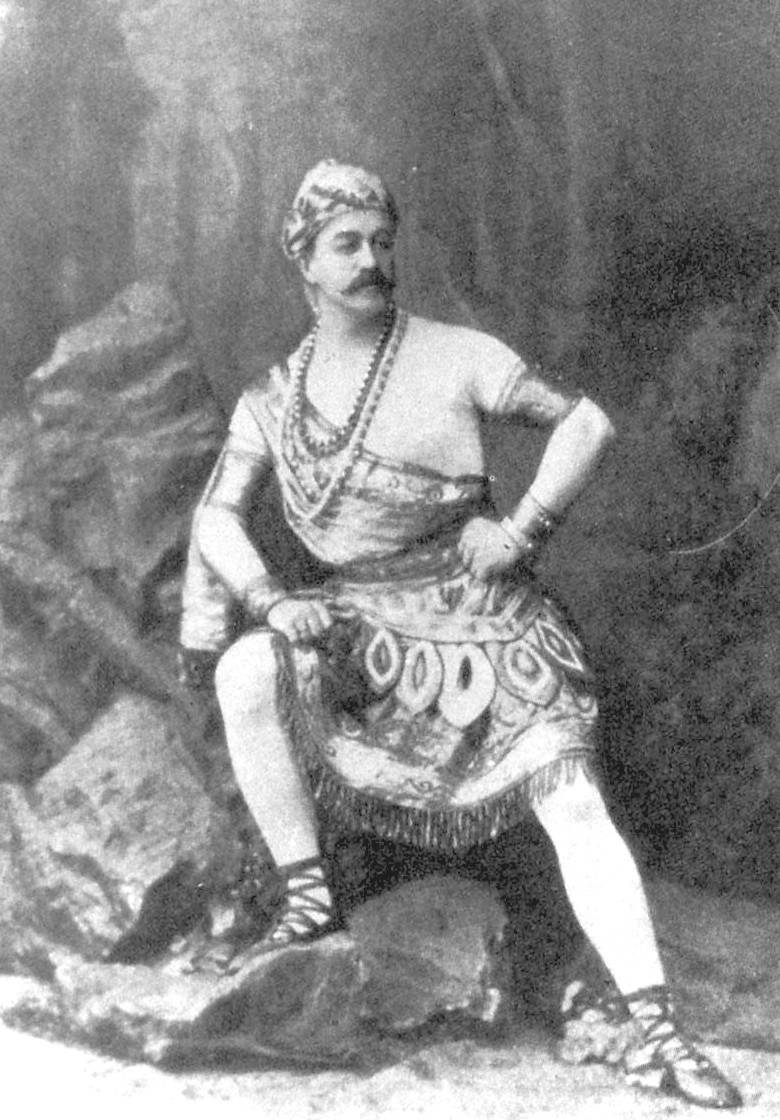 Photo by unknown of Lev Ivanov in the ballet "La Bayadere", St. Petersburg, 1877. Photo comes from my collection and was scanned by me. Mrlopez2681 06:03, 3 December 2006 (UTC)